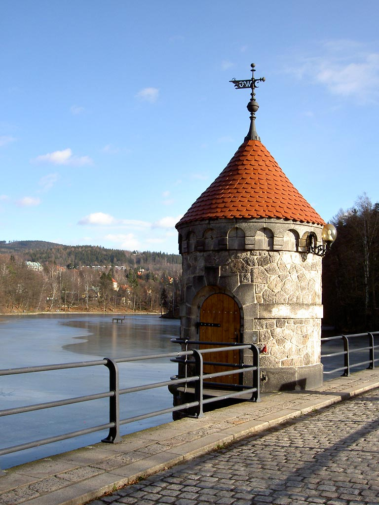 Liberec (Harcov) dam, Czech Republic